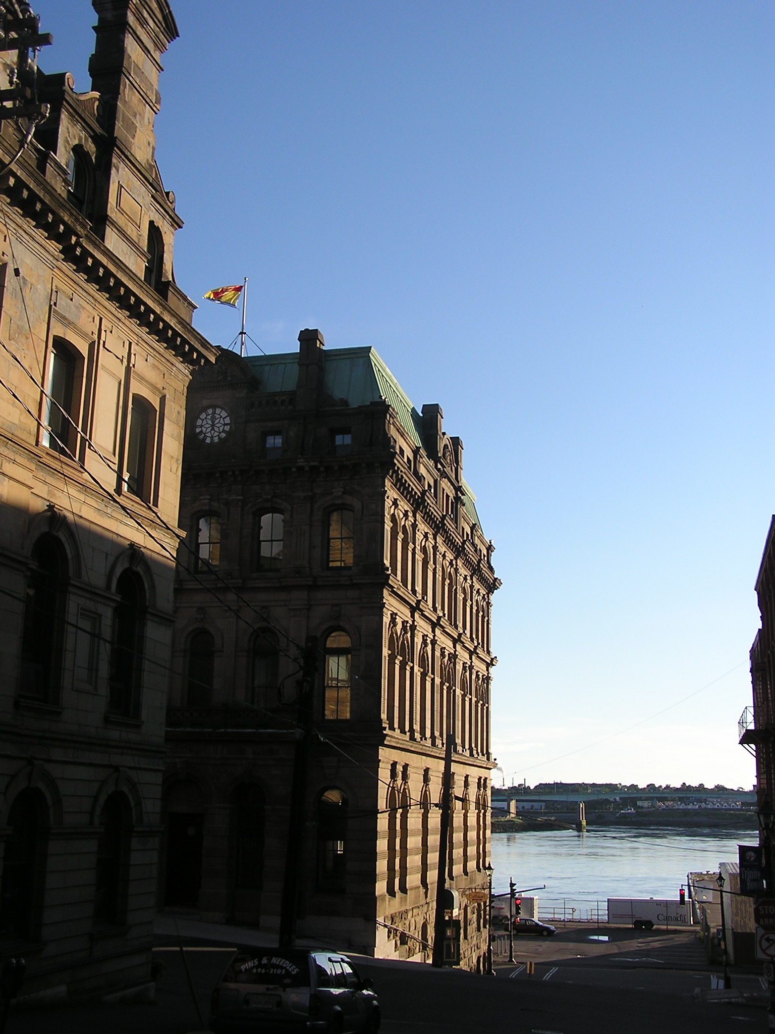 I took this photo in my hometown in mid-July, 2006. I am putting it here in the commons for people to freely use.